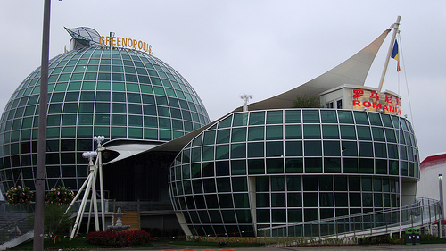 the Romania pavilion of Shanghai expo2010.